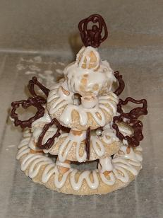 Marzipan ring cake (Danish: kransekage)